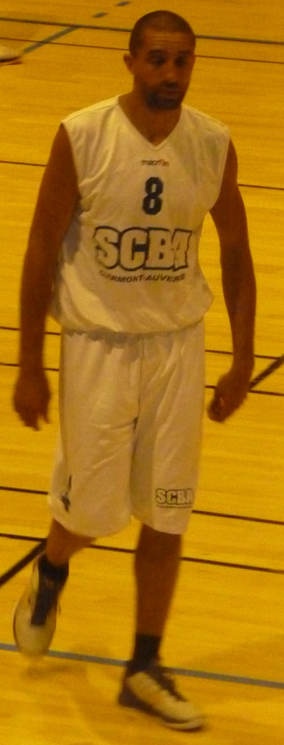 French basketball player David Melody at a charity game in favor of the association Giving Back, in Clermont-Ferrand (Puy-de-Dôme, France).